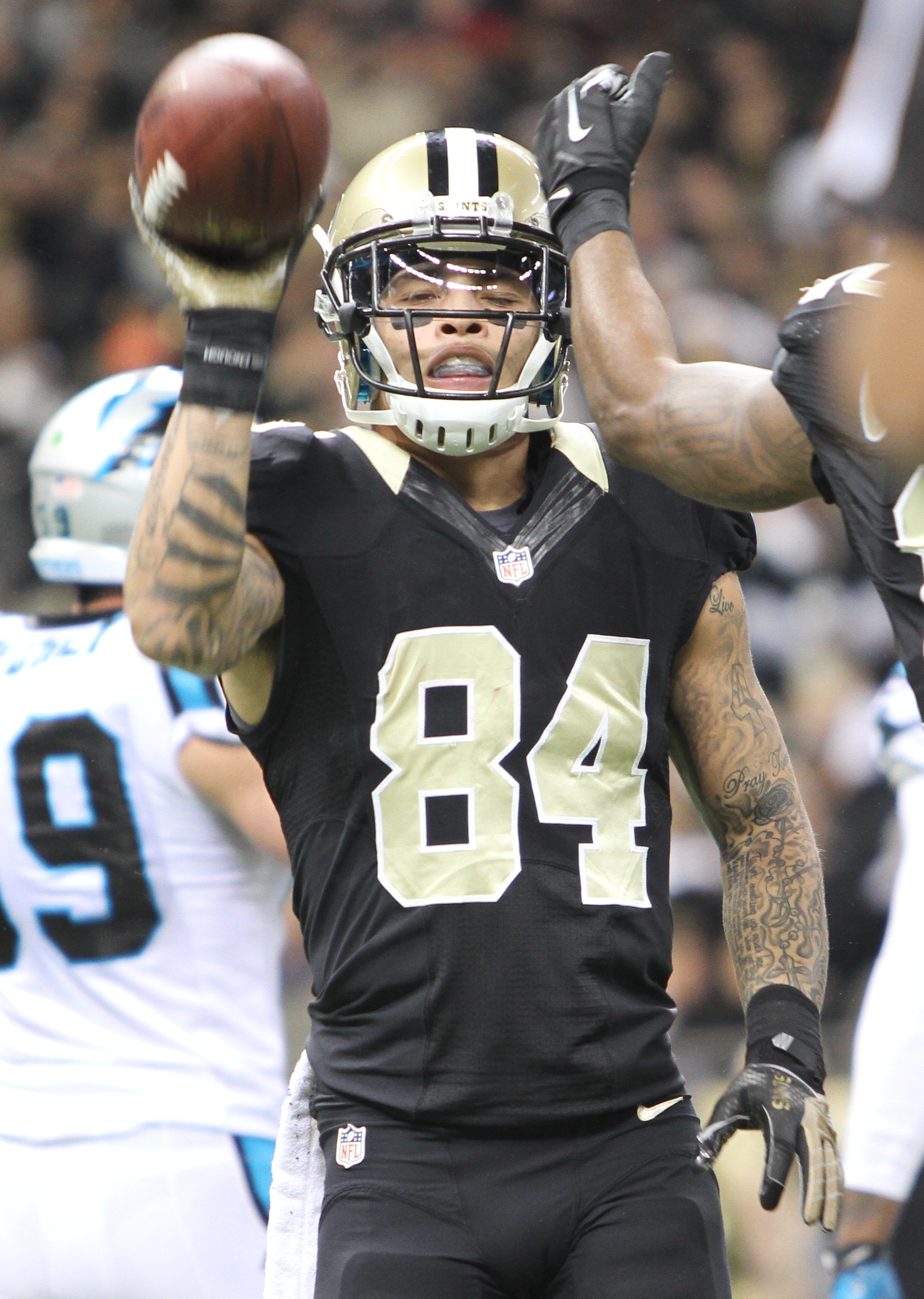 Kenny Stills, #84, New Orleans Saints wide receiver, New Orleans Saints vs Carolina Panthers, Mercedes Benz Superdome, New Orleans, Louisiana, Tammy Anthony Baker, Photographer